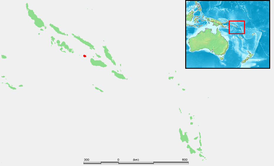 Island of Solomon Islands - Russell.PNG